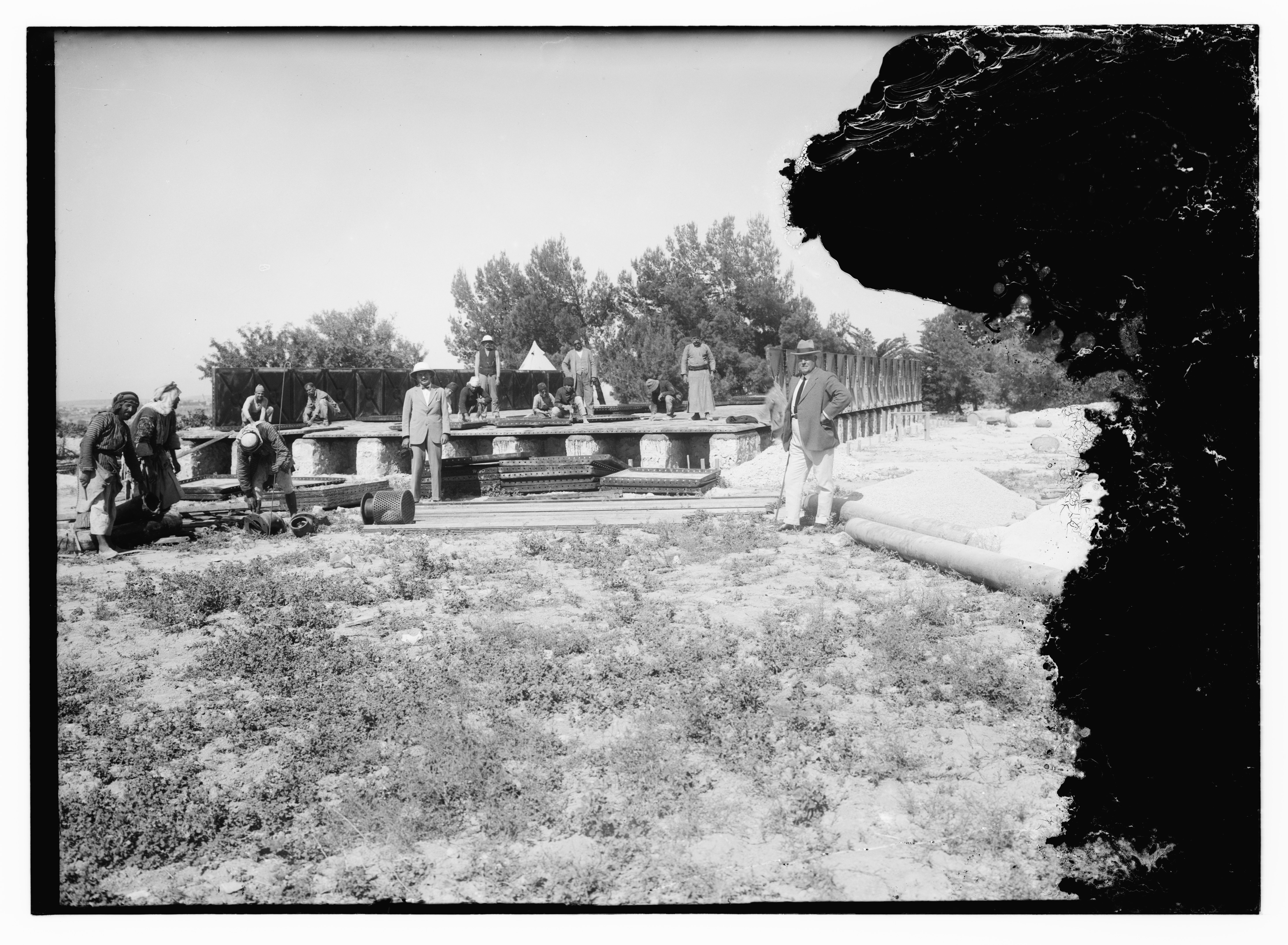 Title: Ain Farah water supply Abstract/medium: G. Eric and Edith Matson Photograph Collection Physical description: 1 negative